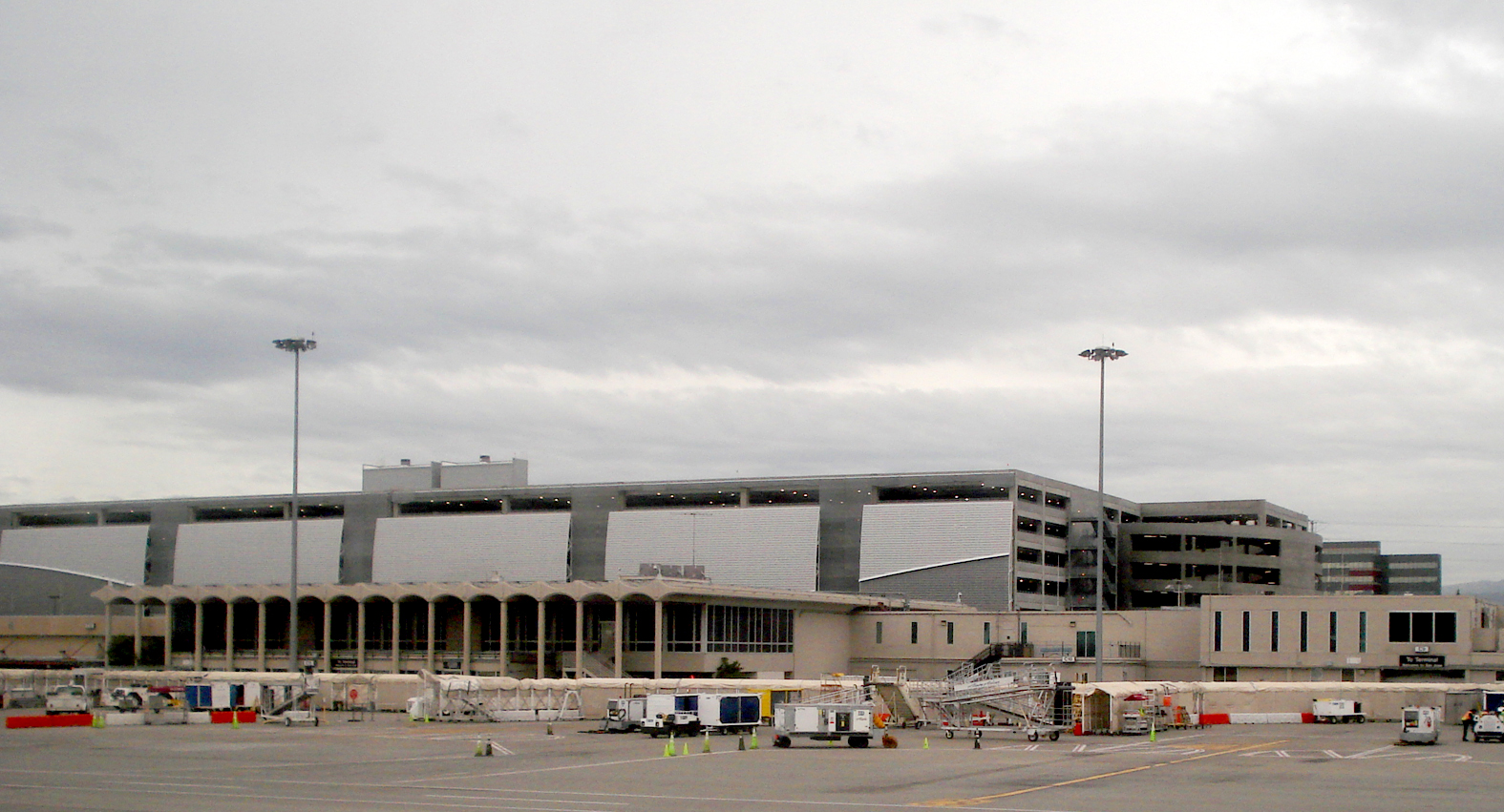 Terminal C at San Jose International Airport in early 2010, with new parking structure in background.